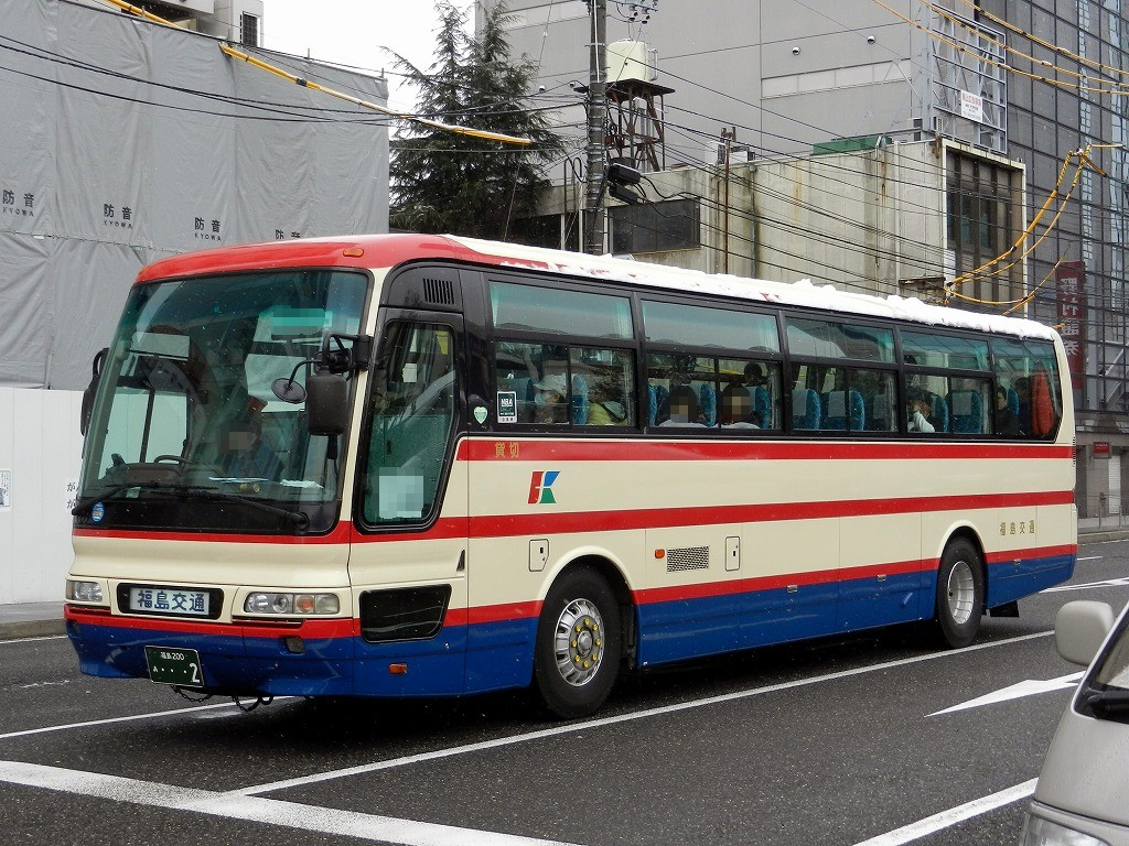 Fukushima kotsu chartered bus (Mitsubishi Fuso Aero Bus,KL-MS86MP)